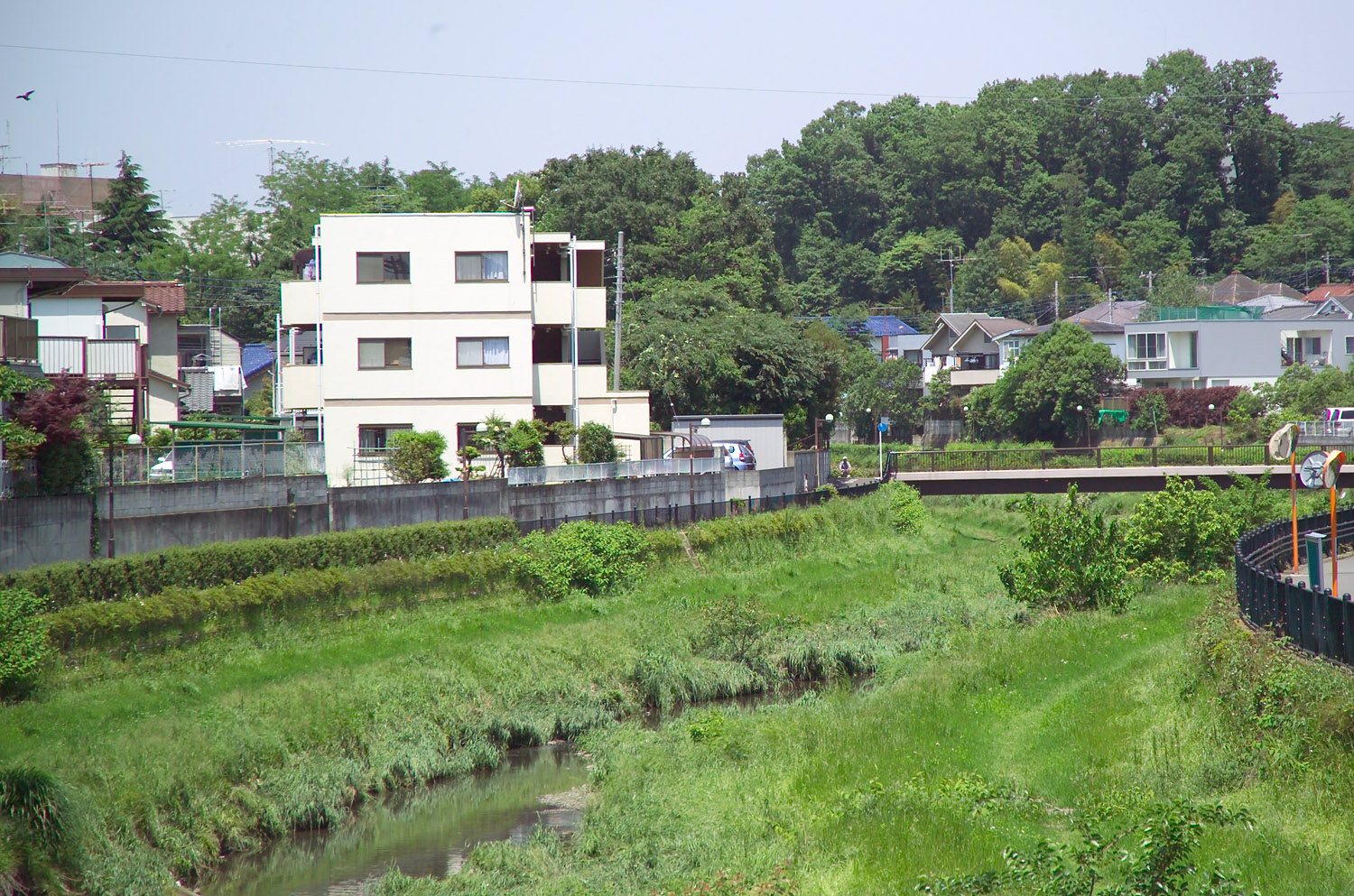 The river in this photograph is the Nogawa 野川, a first-class river in Chofu, Tokyo, Japan. I took the photo and contribute my rights in the file to the public domain; individuals and organizations retain rights to images in it.